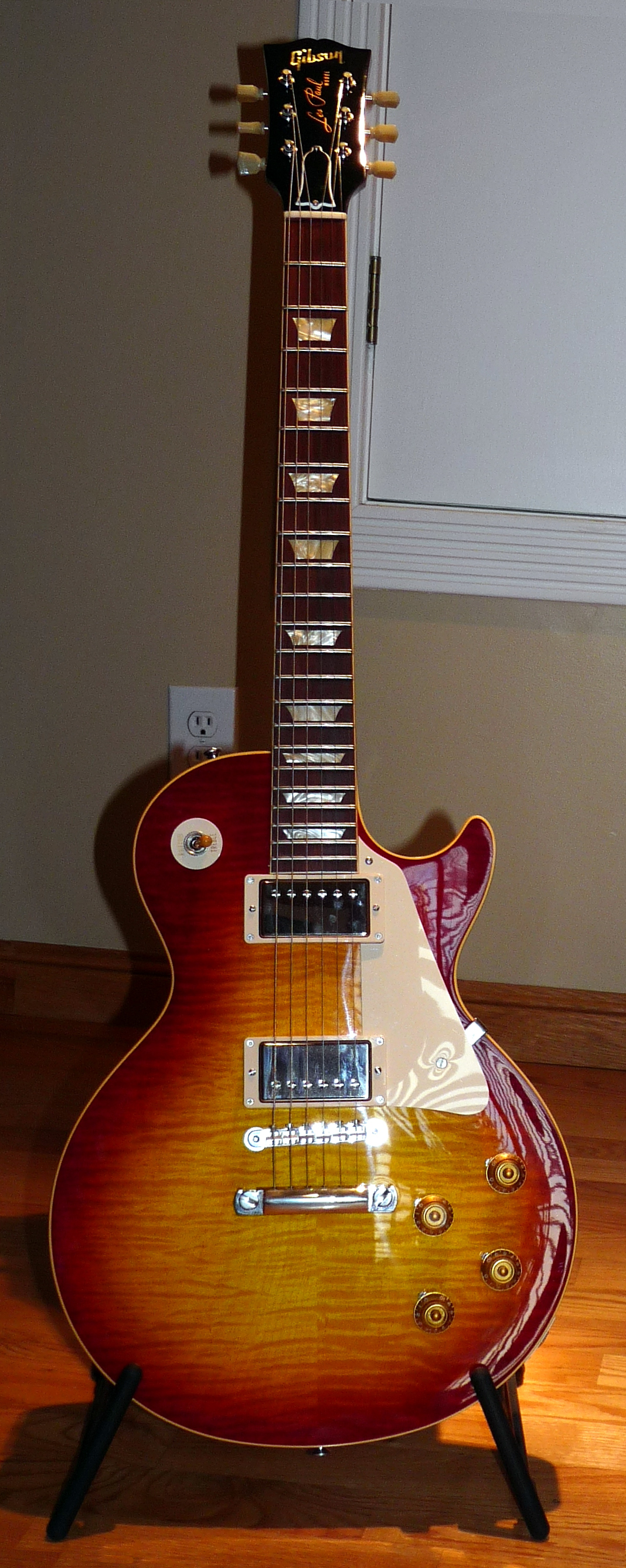 Gibson Custom 50th Anniversary 1959 Les Paul Standard (2009)